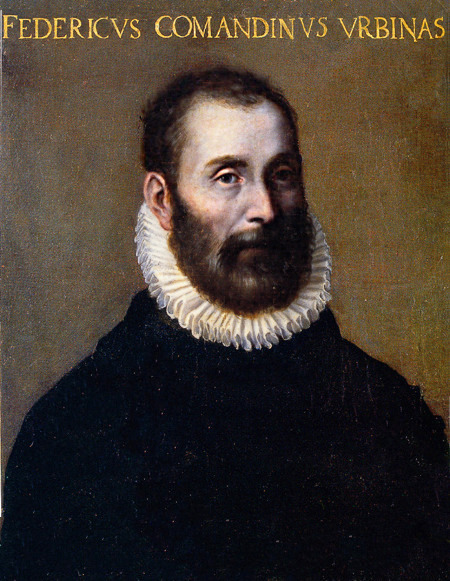 Federico Commandino (1509-1565), Italian mathematician